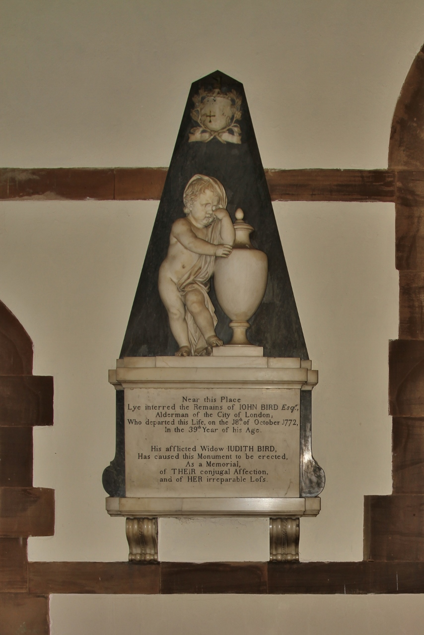 Wall-mounted monument in the parish church of St Nicholas, Kenilworth, Warwickshire. Sculpted by Joseph Nollekens to commemorate John Bird, who died in 1772.